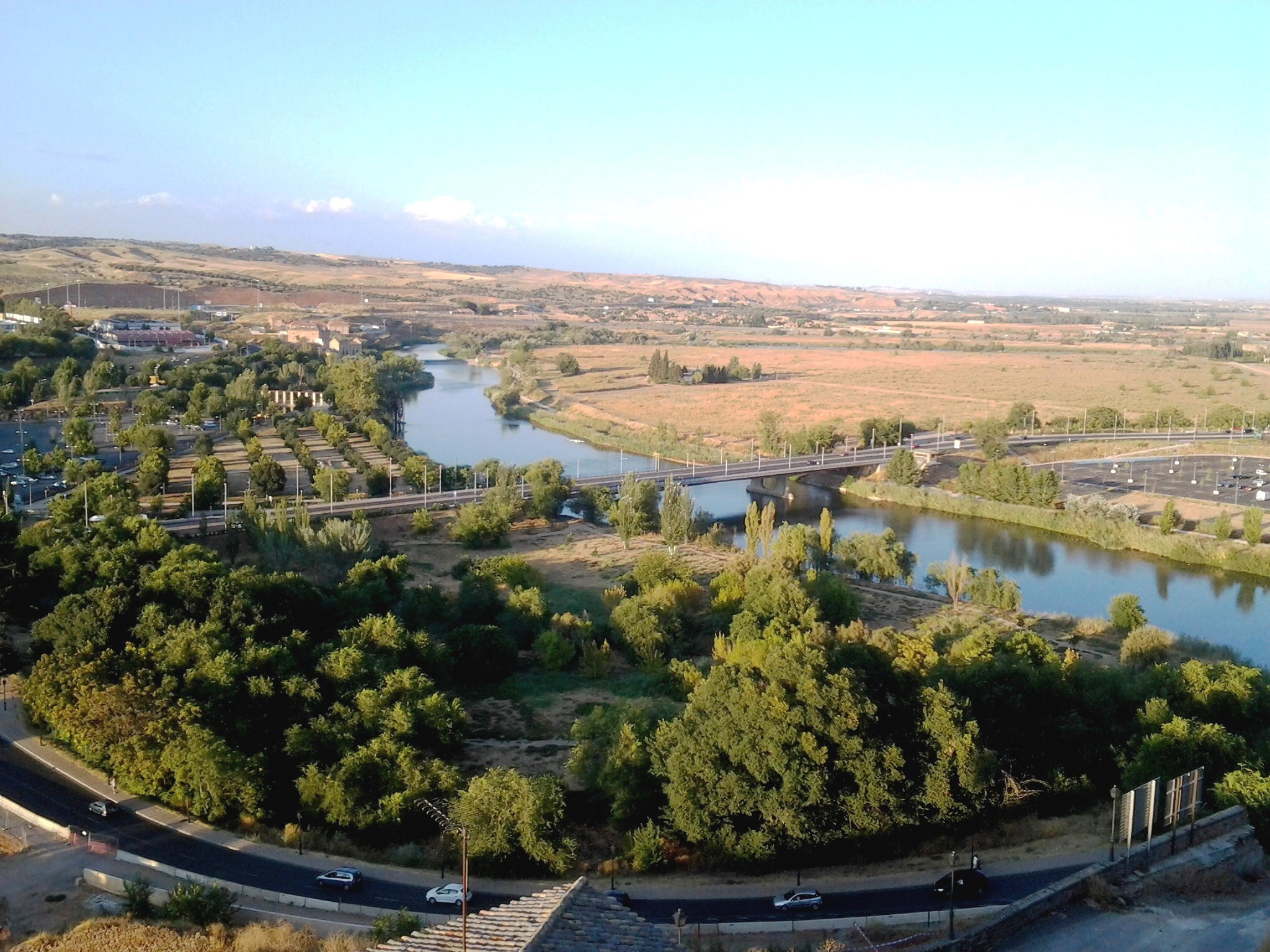 Tagus River in Toledo